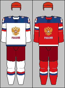 The home and away jerseys of the Russian national ice hockey team used from the 2014 IIHF World Championship.